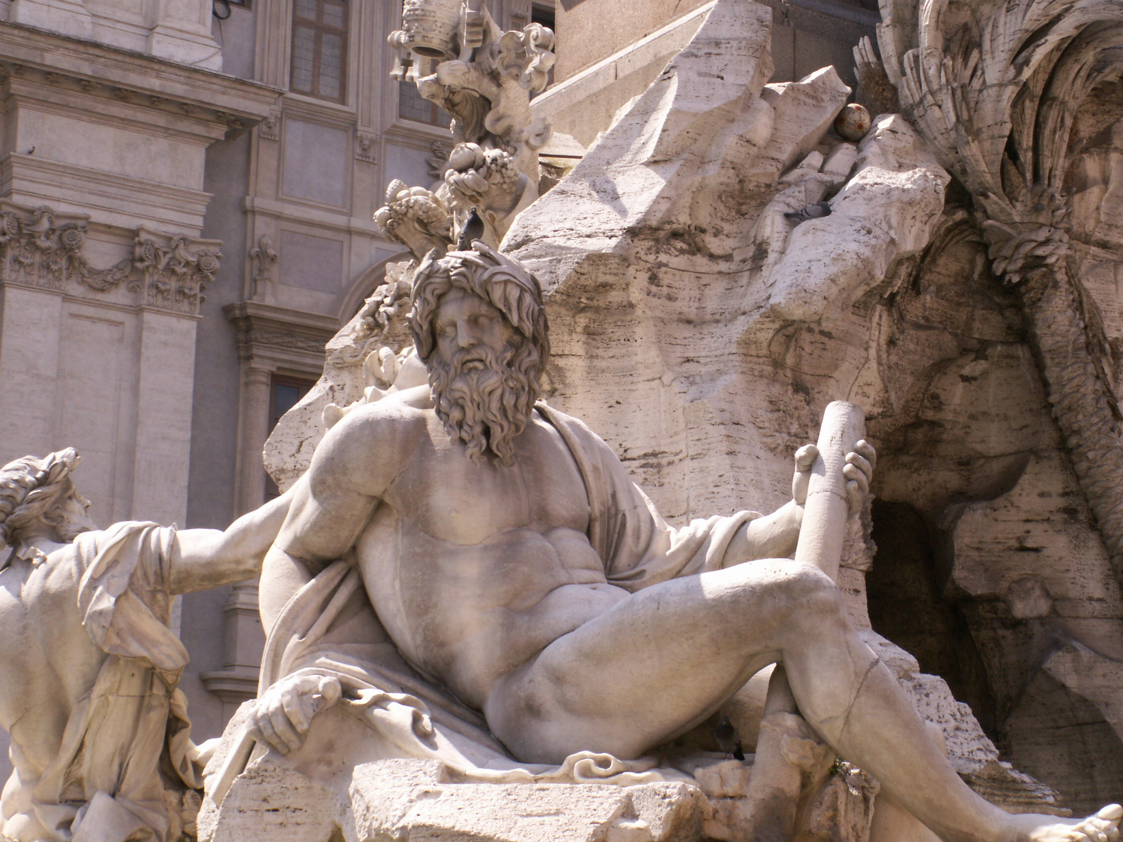 take on family vacation